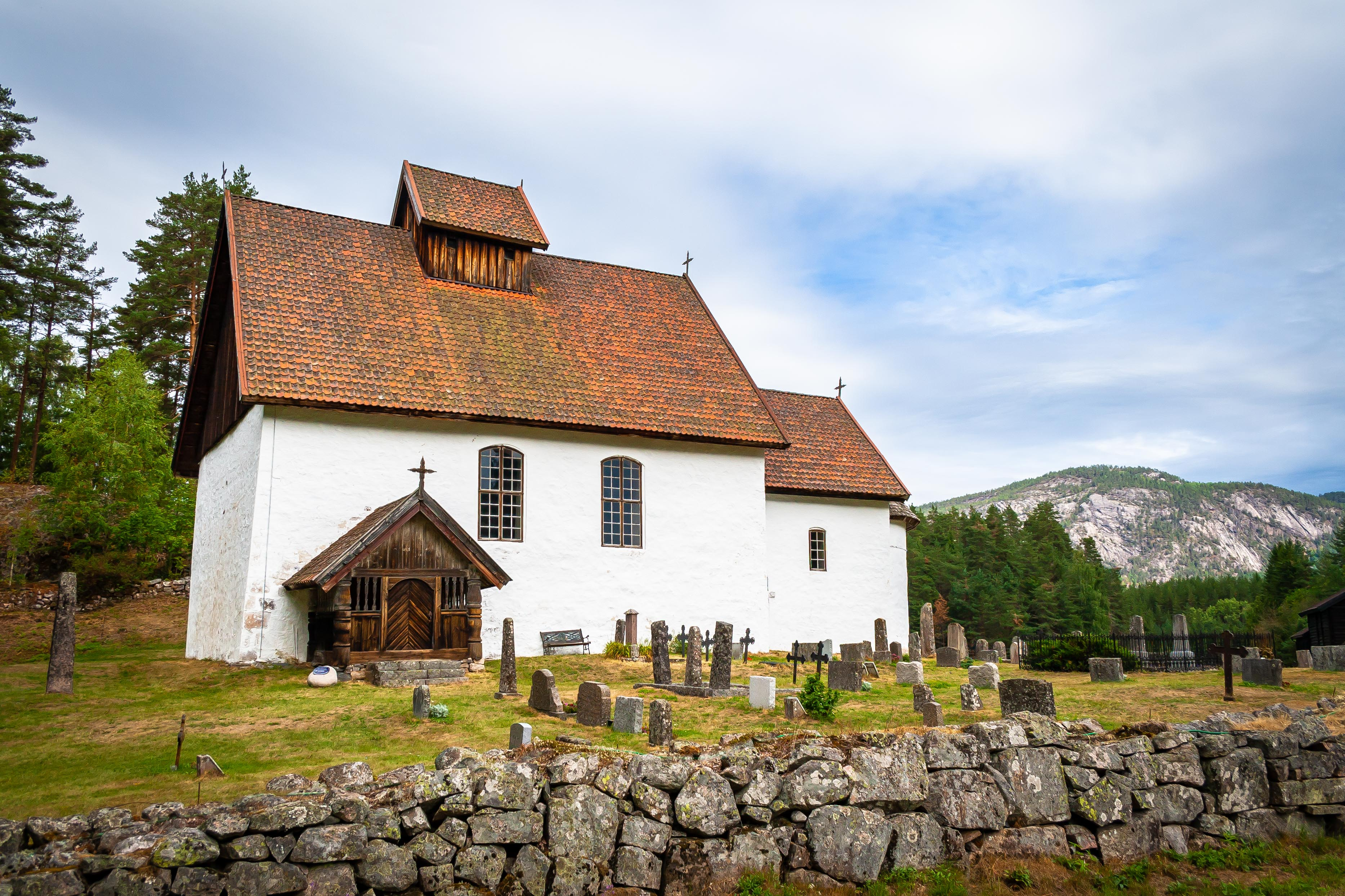 Norwegian stone church from the 1200s. Located in Kviteseid, Telemark.